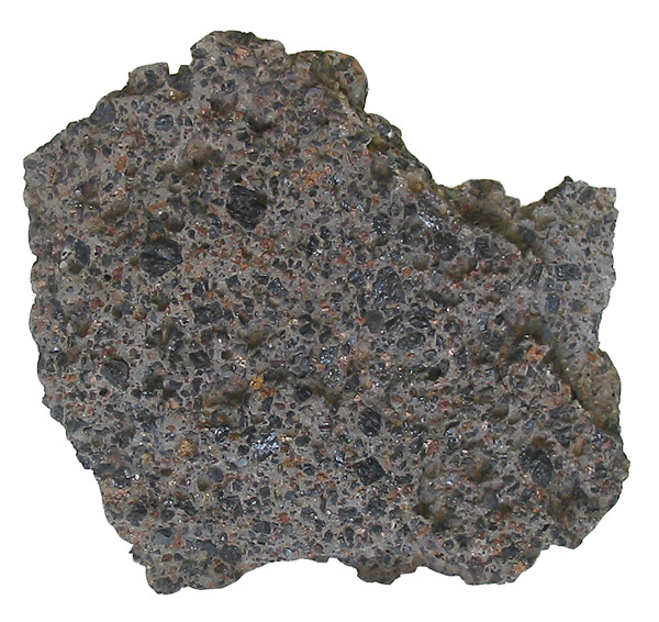 Photographer: Siim Sepp Date of the creation: 25th April, 2005. Diameter is 14 cm. Description: dark groundmass is basalt, orange is iddingsite (hydrothermally altered olivine) and black phenocrysts are augite (one of pyroxenes). Rock sample is from La Palma, Canary islands and belongs to the University of Tartu.